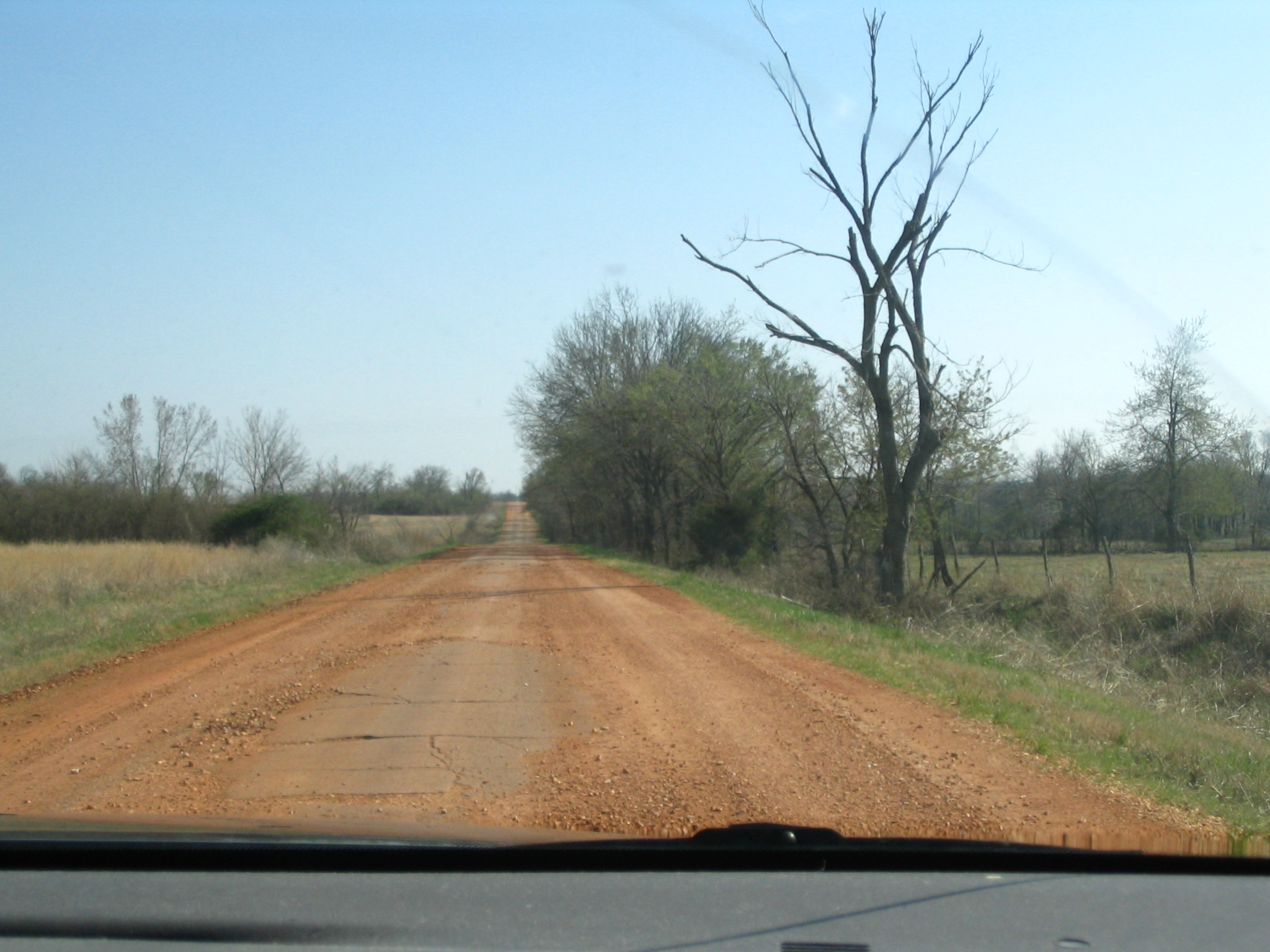 An older "sidewalk highway" segment of U.S. Route 66 near Miami, Okla. If you look along the edges of the paved section in the middle of the road, you can see the raised "curbs" of concrete that outline the actual pavement.